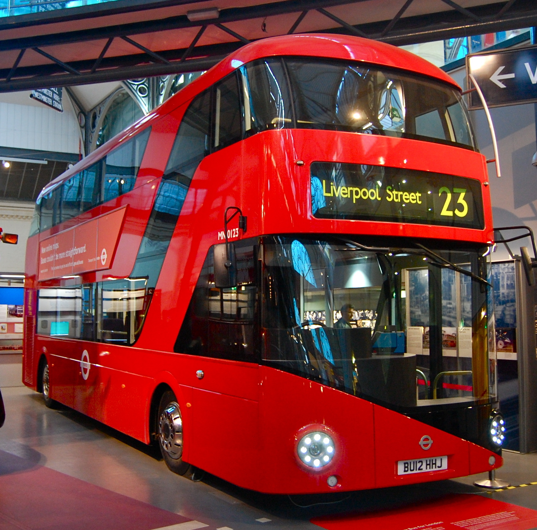 The full size mock-up of the planned New Bus for London, pictured at the London Transport Museum in Covent Garden, London. It has the fleet number MN0123, registration plate BU12 HHJ, and wears blinds for London Buses route 23 to Liverpool Street station.